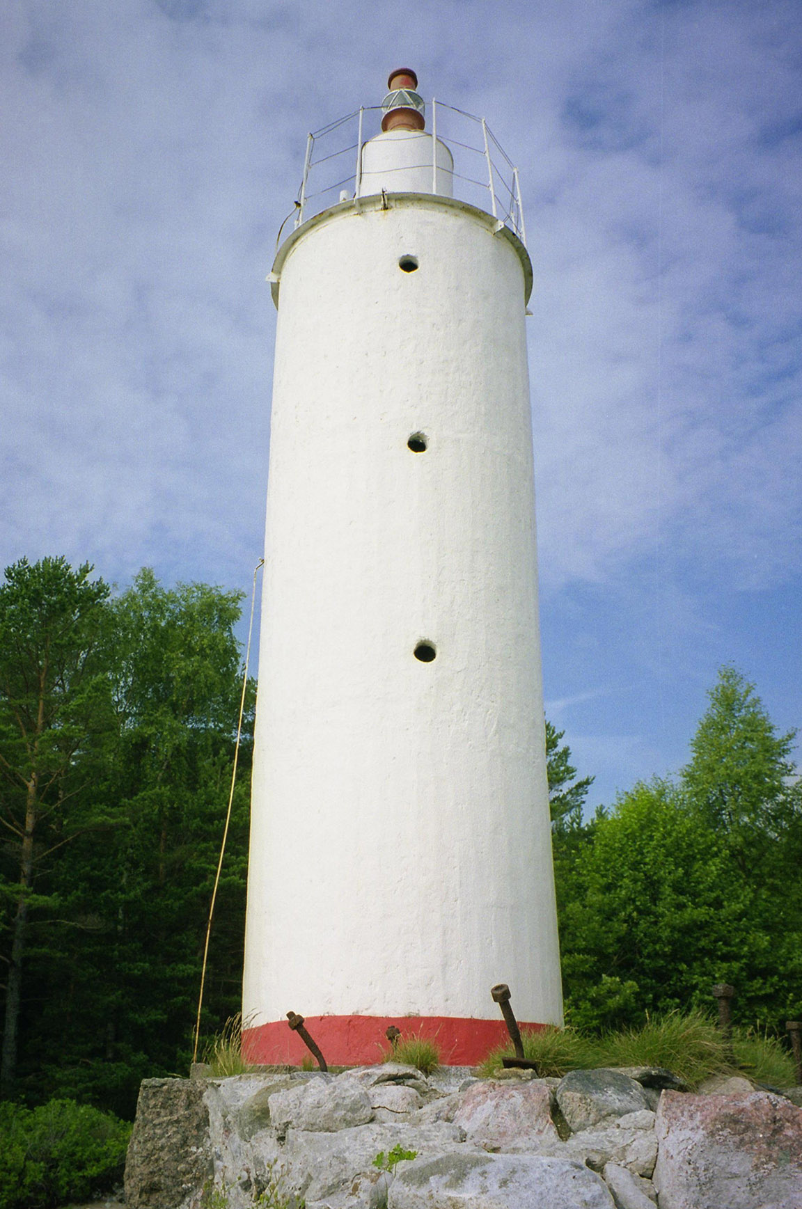 Naissaar Harbour light beacon